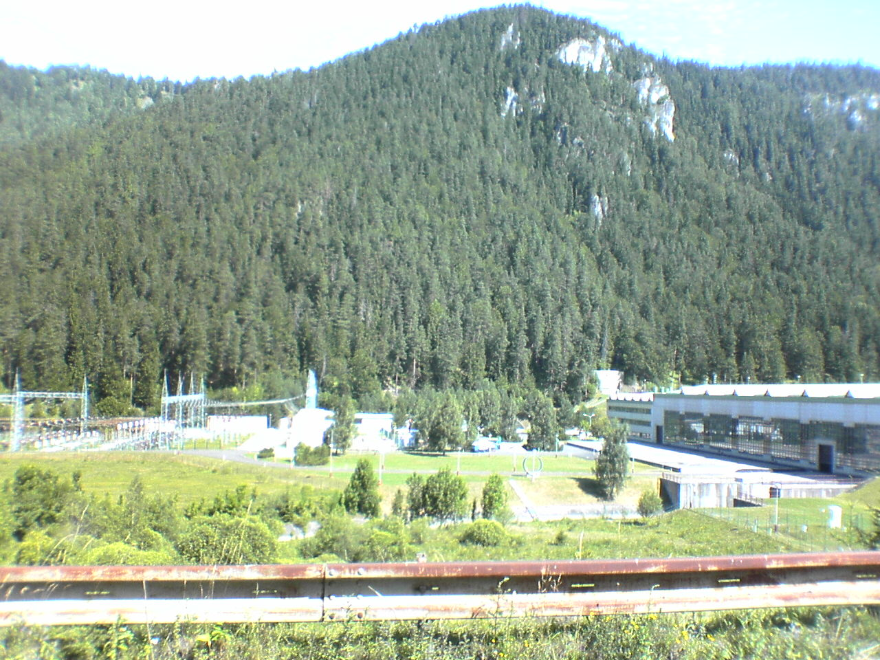 Čierny Váh power station